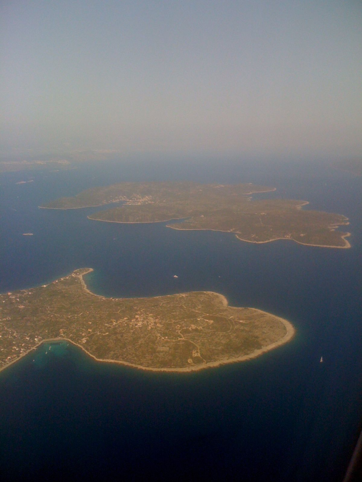 Islands of Drvenik Mali and Drvenik Veli